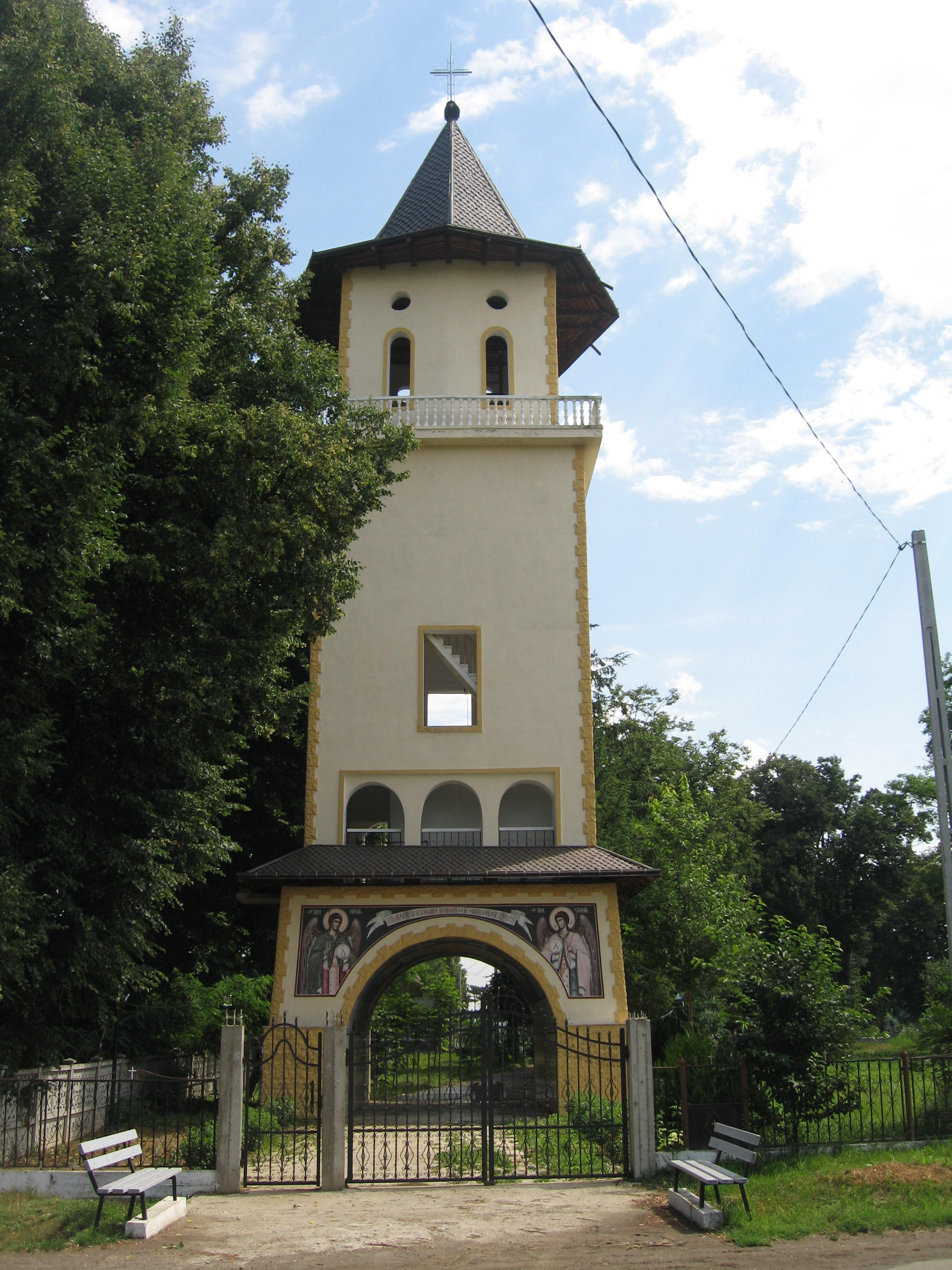 bell tower